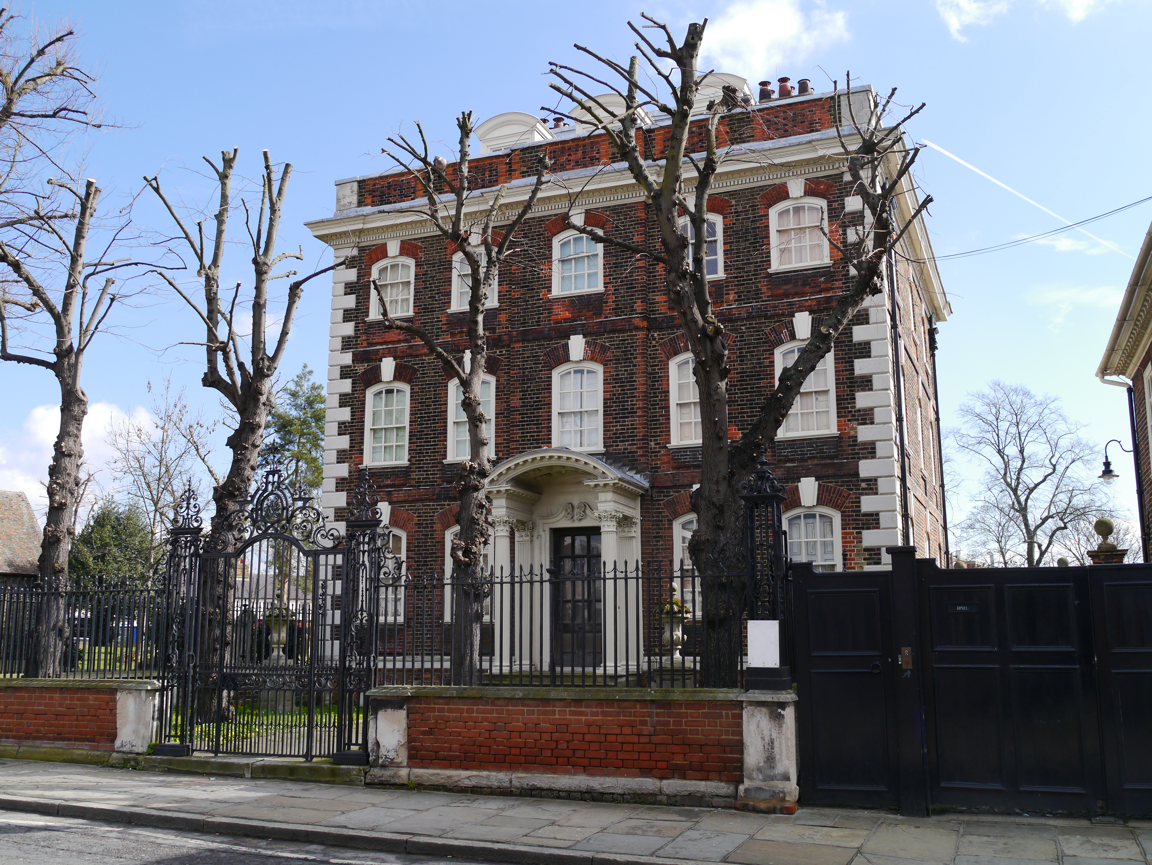 Rainham Hall, a 1729 Georgian property operated by the National Trust